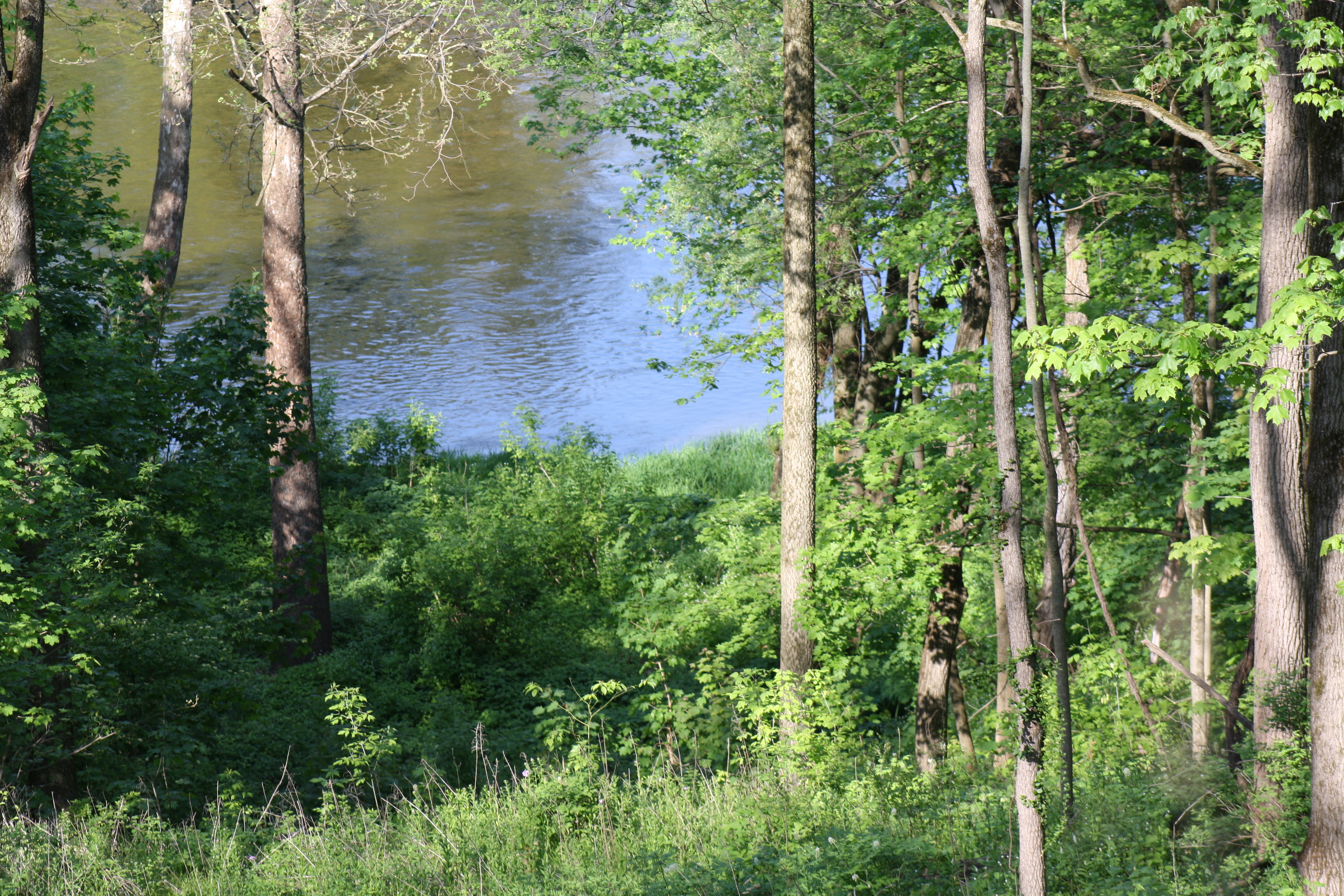 The Bell Homestead National Historic Site, Brantford, Ontario, Canada, including the Visitors' Center, Henderson Home, Carriage House and Alexander Graham Bell's dreaming place, where he saw the undulating ripples on the Grand River as it flowed past him